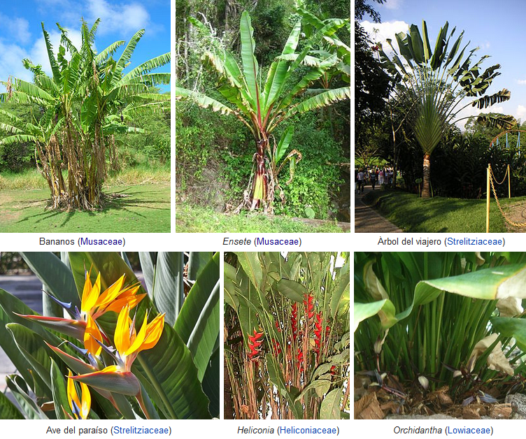 "Grupo de familias de bananas" (Banana-families) sensu KRESS, W.J. & SPECHT, C.D. 2005. Between Cancer and Capricorn: Phylogeny, evolution and ecology of the primarily tropical Zingiberales. Biol. Skr. 55: 459-478. ISSN 0366-3612. ISBN 87-7304- 304-4.